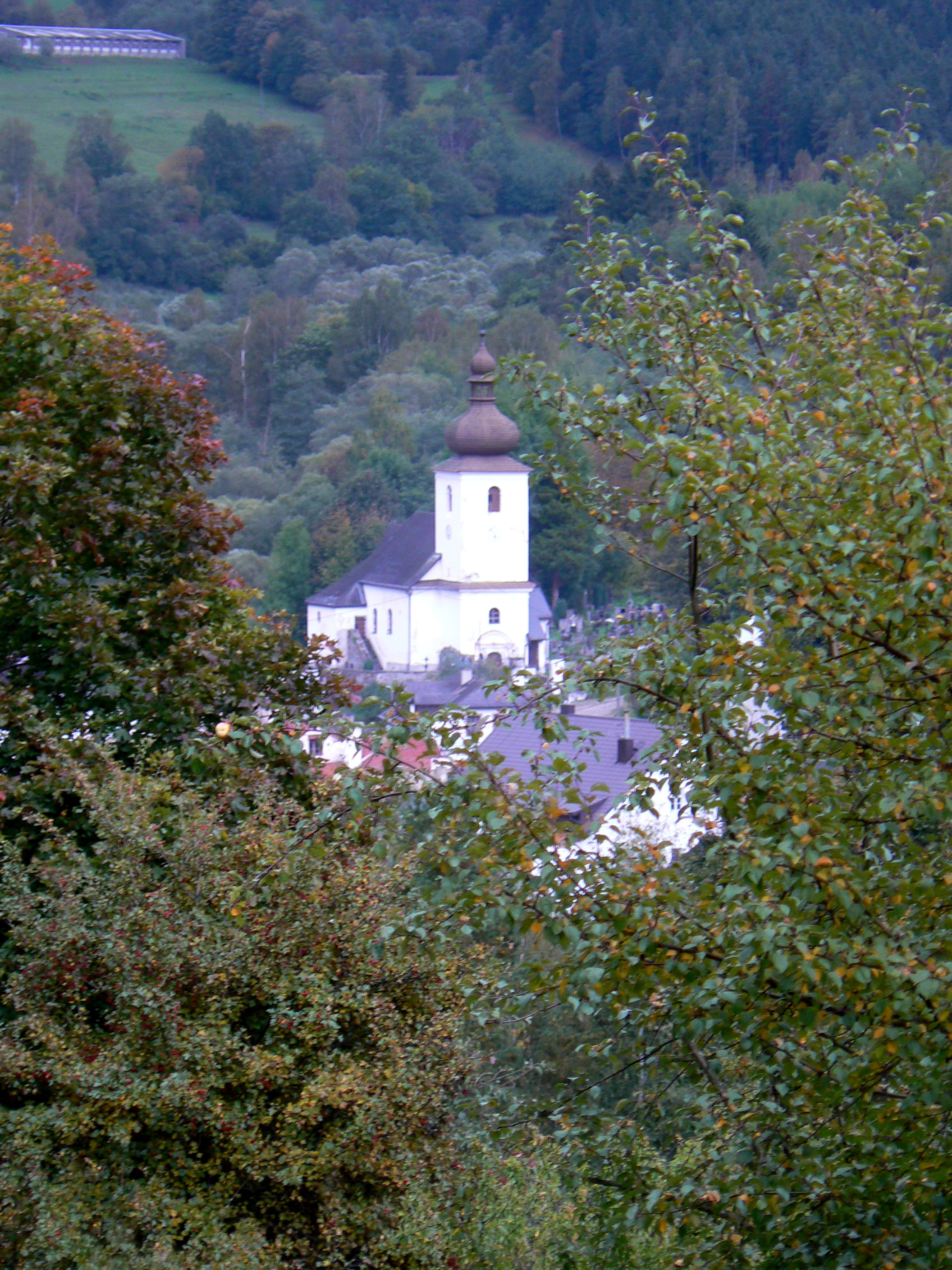 Church of St-Bartholomew, Rejstejn, Sumava (Czech Republic)